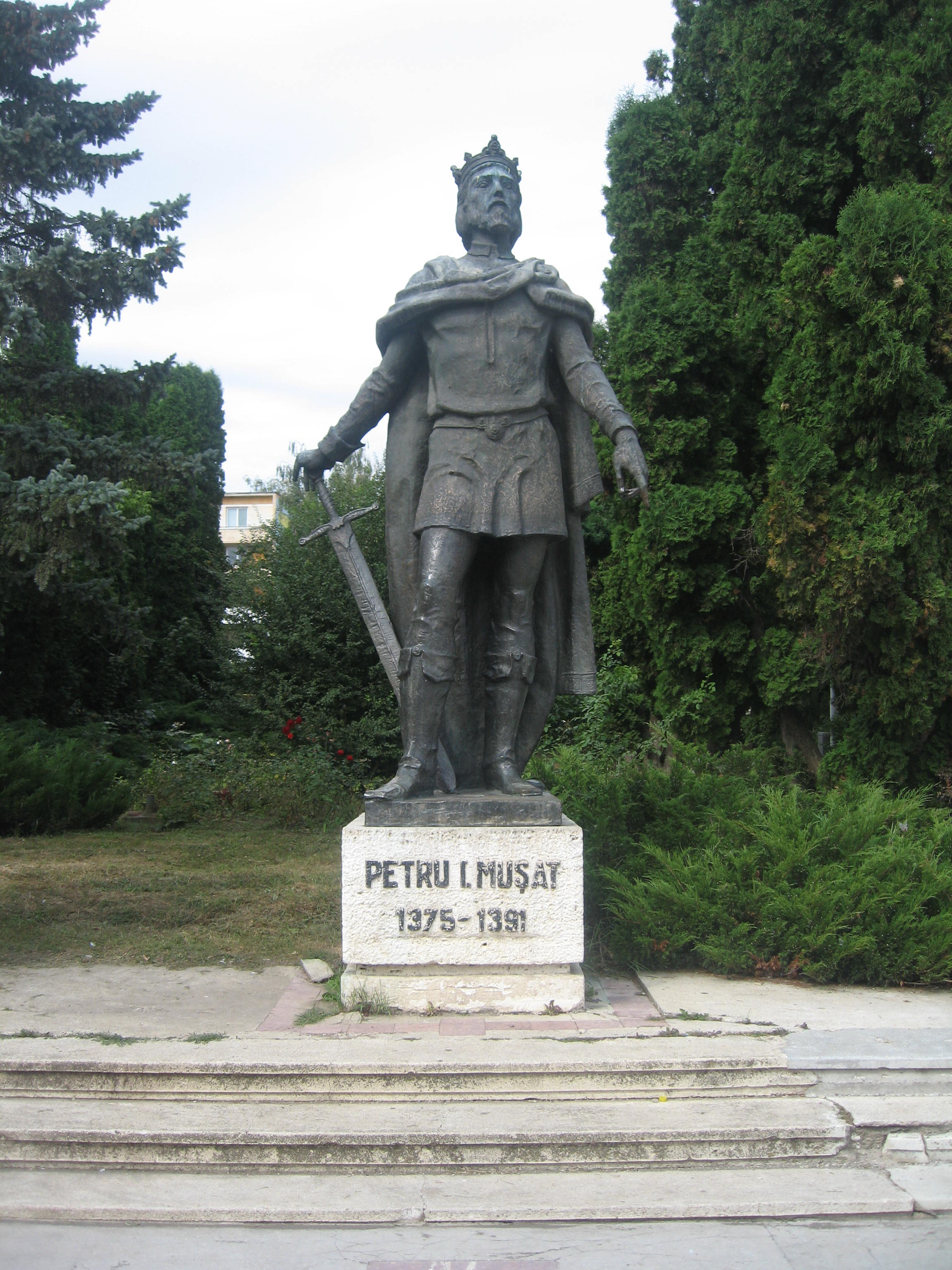 Statue of Petru II of Moldavia in Suceava.